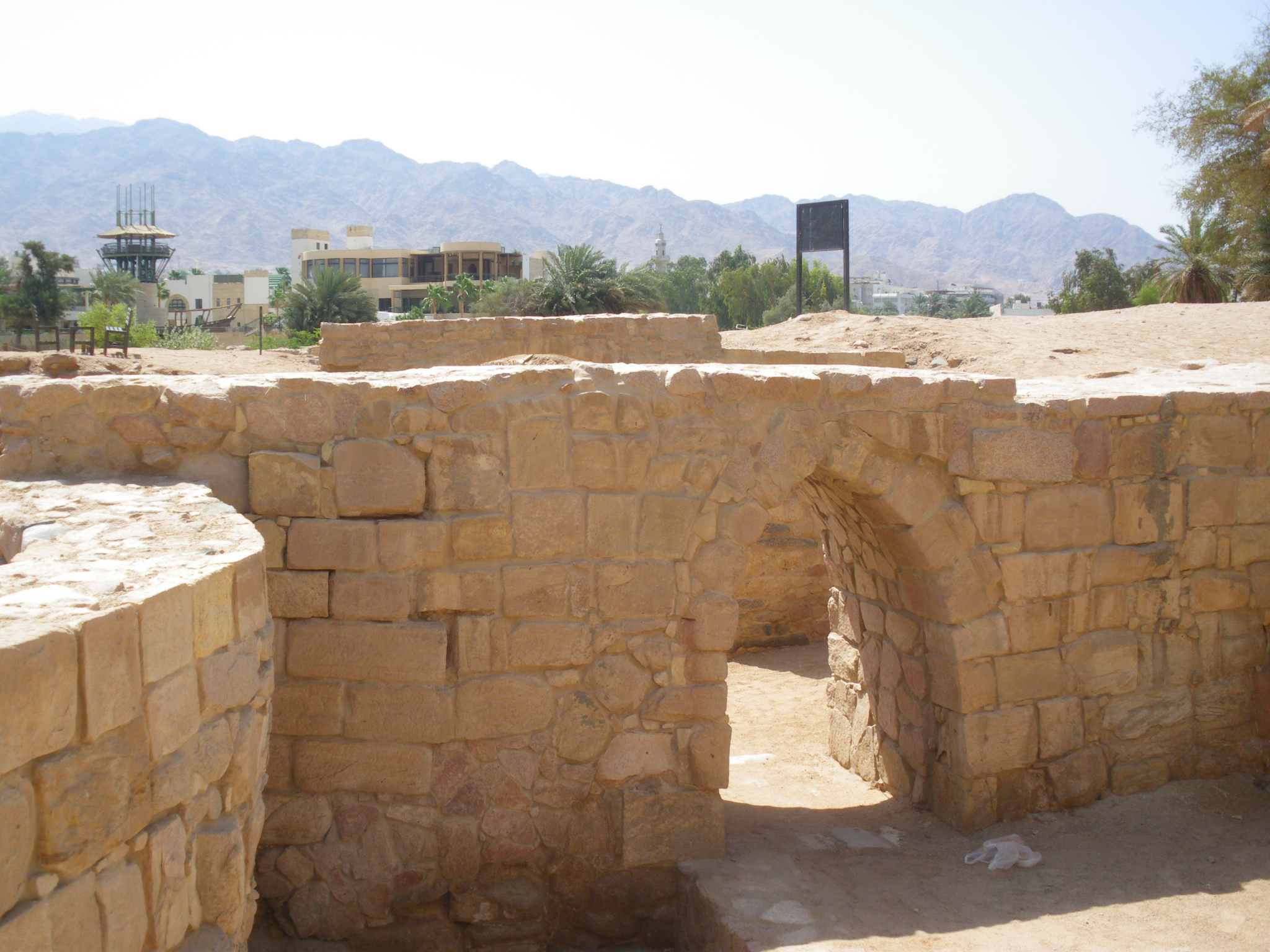 Ruins of Ayla in Aqaba, Jordan : the Egyptian Gate (Bab el Msir)